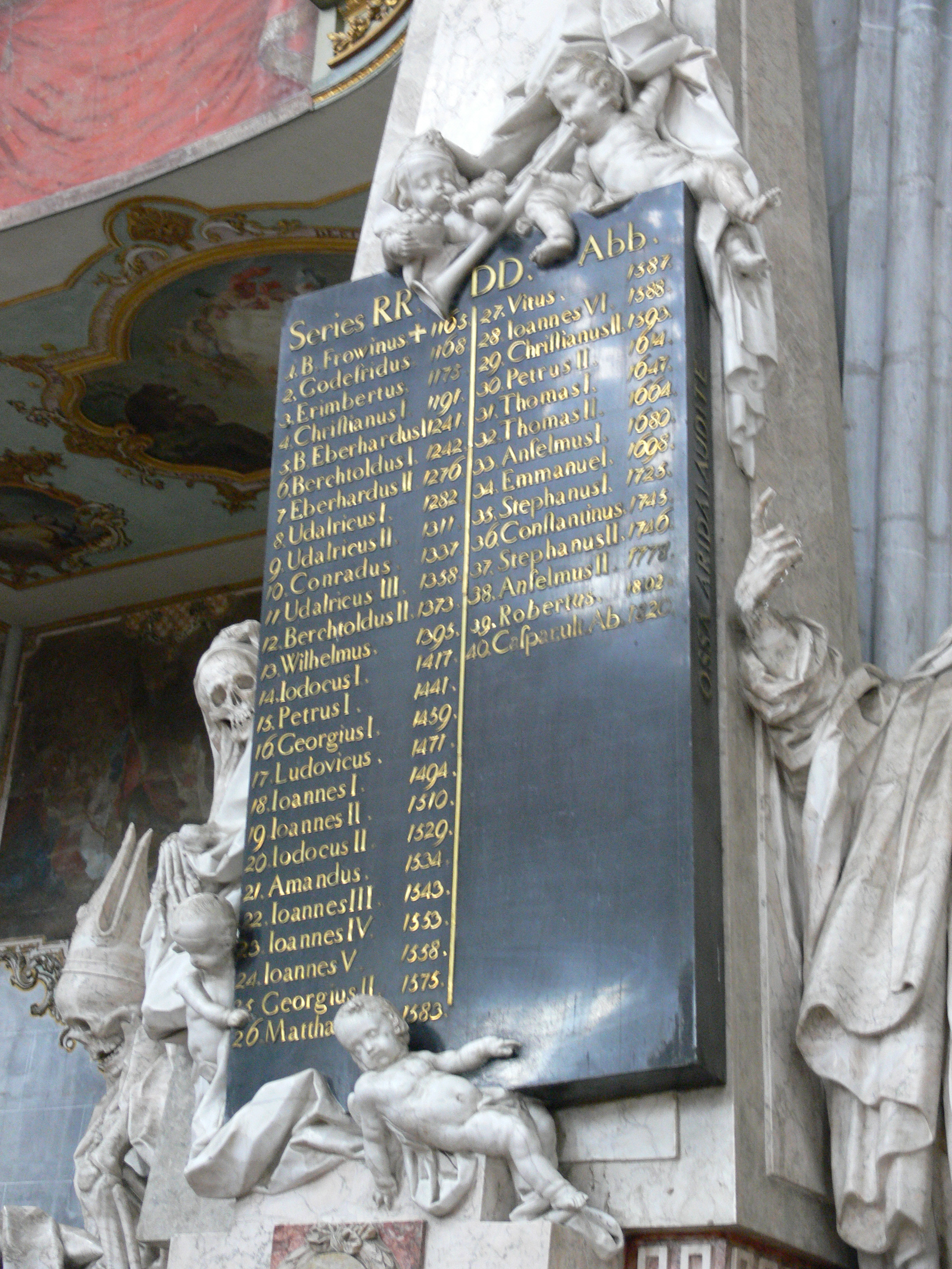 Description: Äbtemonument: Abtsliste Source: User:Saberhagen Location: Salemer Münster, Salem (Baden), Germany Source: own photograph by uploader